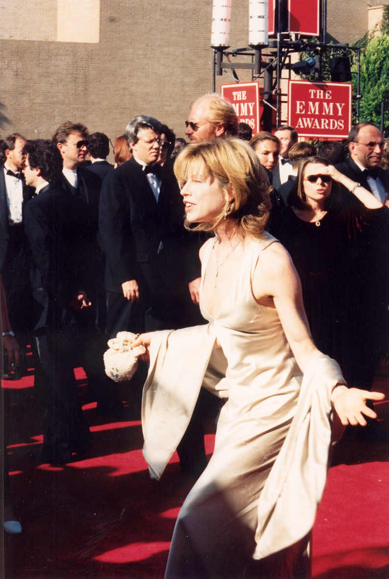 Julianne Phillips on the red carpet at the Emmys 9/11/94 - Permission granted to copy, publish, broadcast or post but please credit "photo by Alan Light" if you can